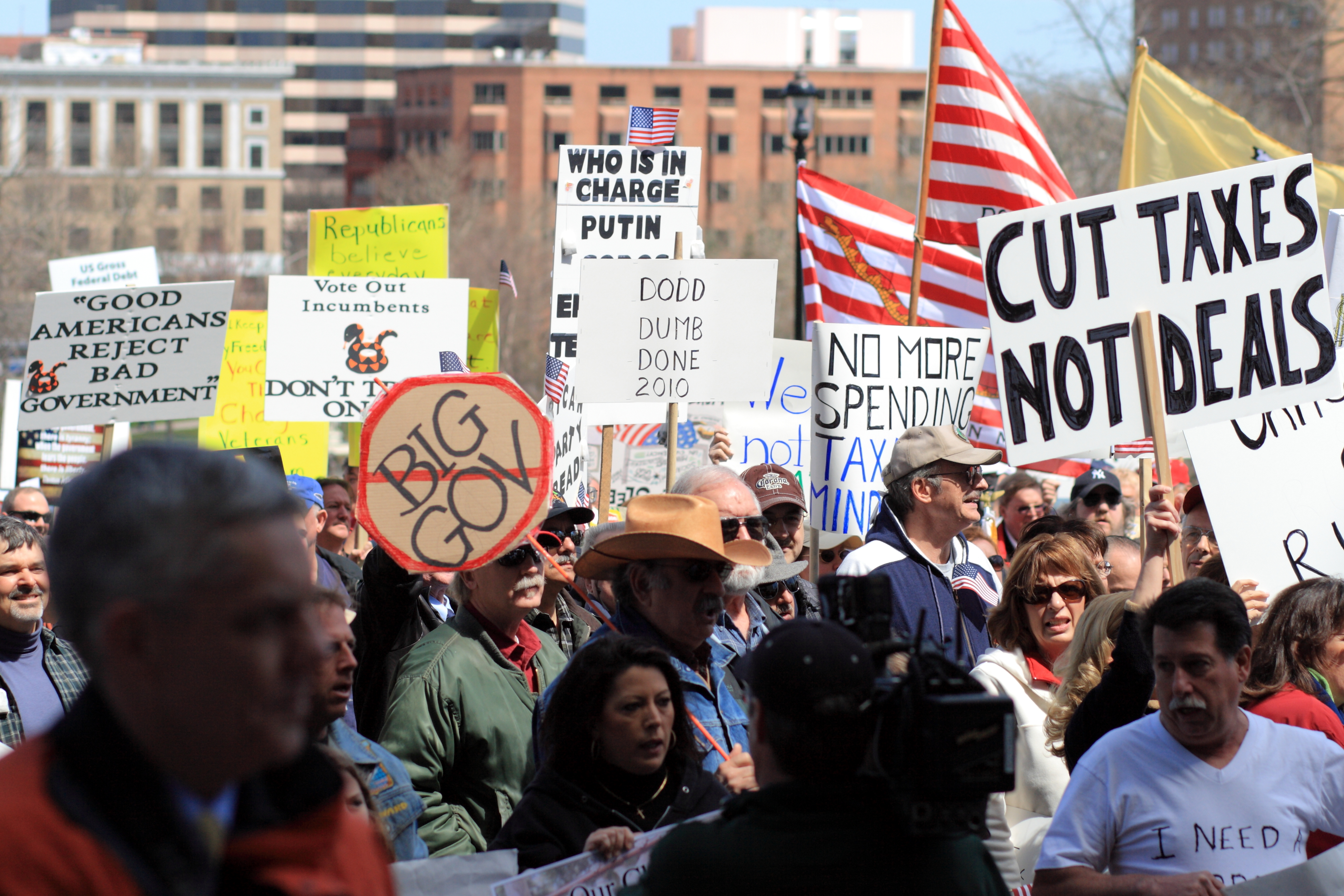 Tea Party protest at the Connecticut State Capitol in Hartford, Connecticut. The protest was scheduled for noon until 2pm local time; the timestamp of the photo is Coordinated Universal Time (UTC). Organizers reported that the police estimate of attendance was 5000 people.